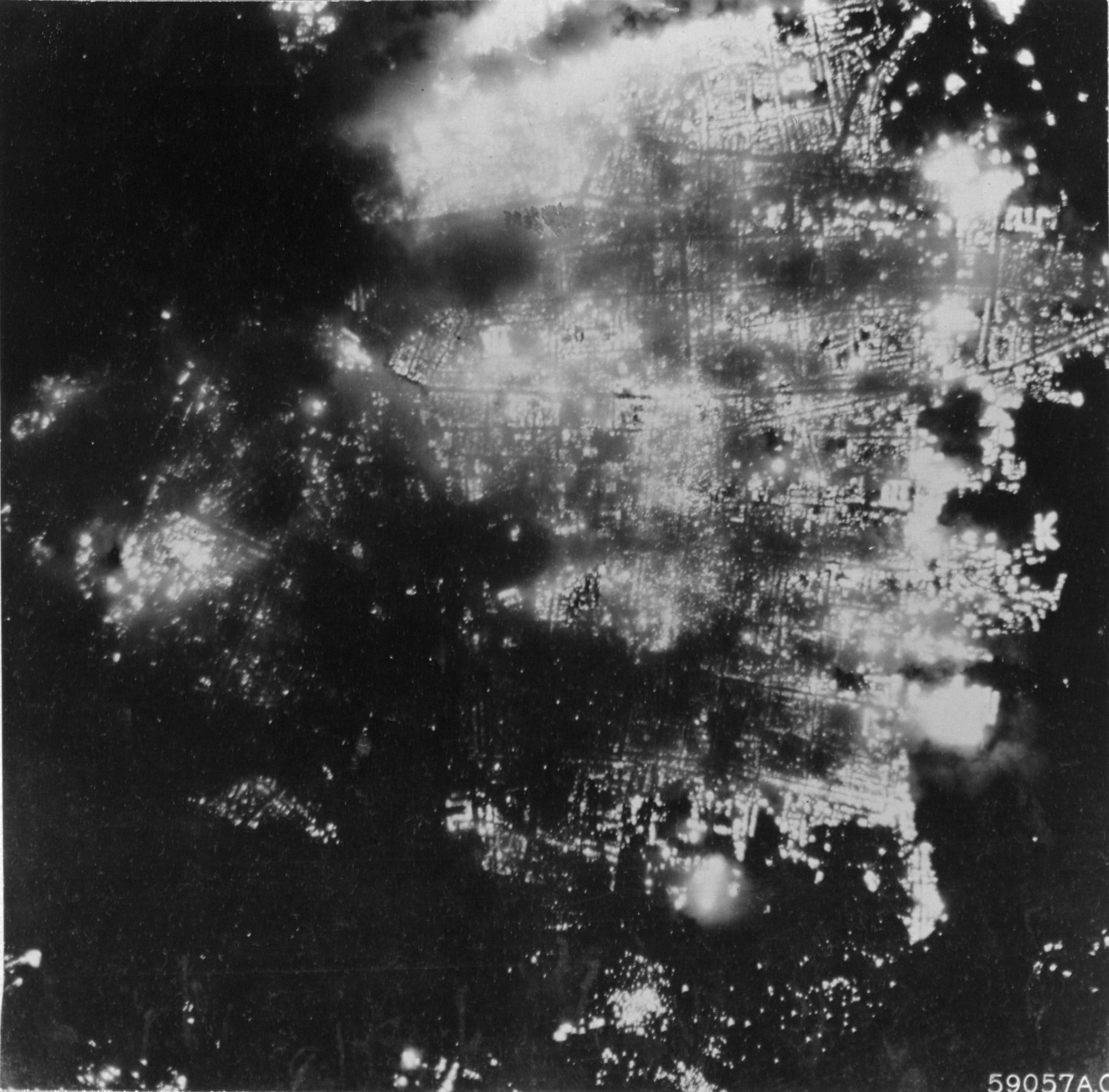 The city of Toyama, a large producer of aluminum in Japan during WWII, burns after 173 American B-29 bombers dropped incendiary bombs on the city, August 1, 1945